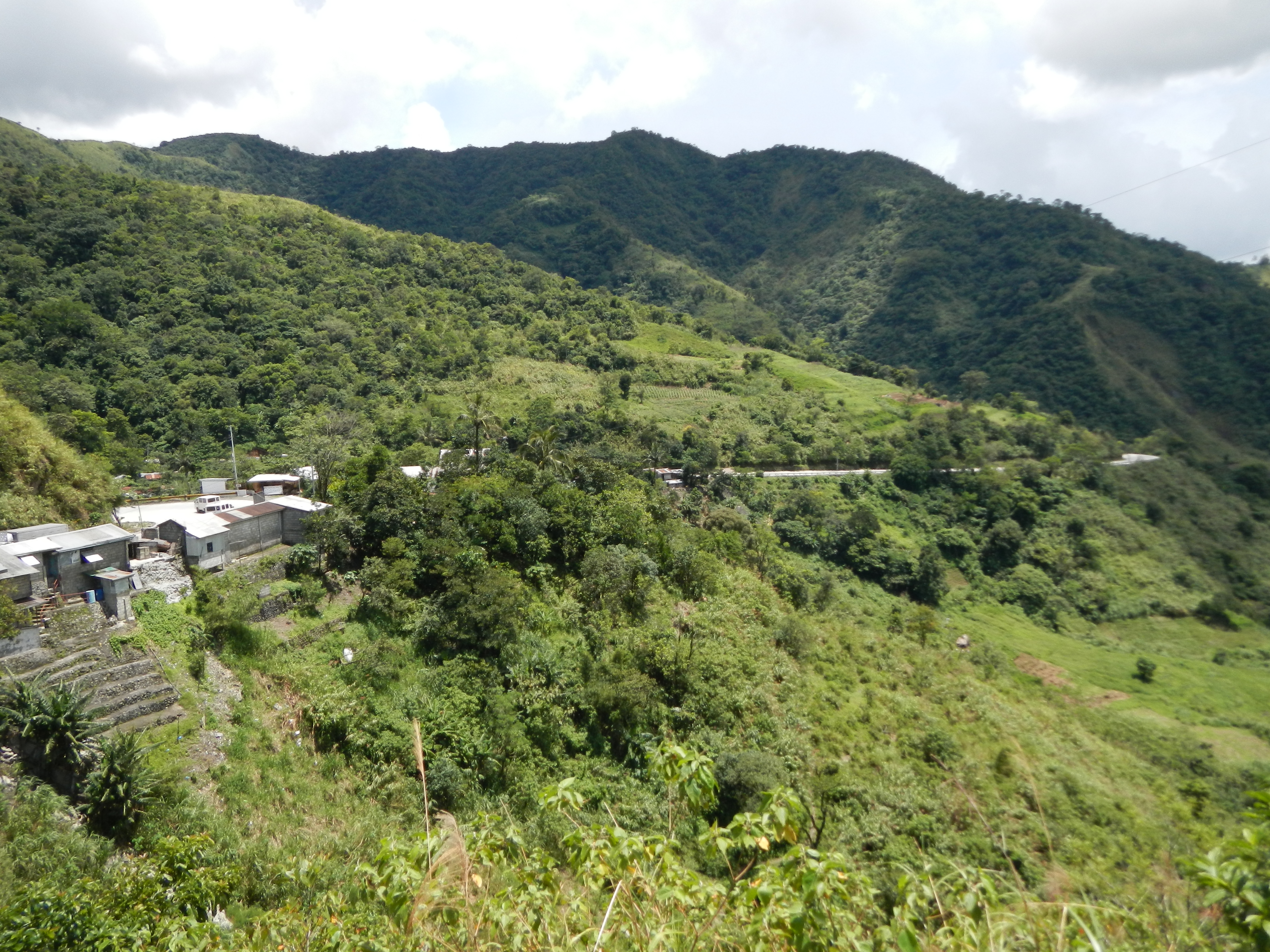 UploadWizard photos -- (General description, 3-dimension angle by angle photography of this town, church & landmarks) -- Balete Pass Tourism Complex (is composed of a) Chinese Shrine, b) Japanese Shrine and Dalton Pass Pass[1] with its Dalton Pass View Deck) in --- Santa Fe, Nueva Vizcaya [2] [3] located along Daang Maharlika or Cagayan Valley Road or Pan-Philippine Highway [4] the only passageway that links the entire North East Luzon to Metro Manila and Central Luzon. Cagayan Valley [5]), beside the) --- Battle of Balete Pass - Dalton Pass[6]( also called Balete Pass, is a zigzag road that joins the provinces of Nueva Ecija and Nueva Viscaya, Philippines. It is located at about 3,000 feet above sea level, where Caraballo Sur [7] meets the Sierra Madre. Being the only access between Central Luzon and Cagayan Valley, the pass became the scene of much bloody fighting during the final stages of World War II and bore witness to the death of almost 17,000 Japanese, American, and Filipino soldiers. It has a national shrine that gives honor to General James Dalton II [8] Congress approves Balete pass national shrine House bill number 3303 - Proclamation No. 653, the Battle of Balete pass commemorated from May 10 to 13, Balete Pass national shrine shall be under the military shrines service of the Philippine Veterans Affairs Office (PVAO).Memorial Balete , Dalton Pass [9] [10] [11]).